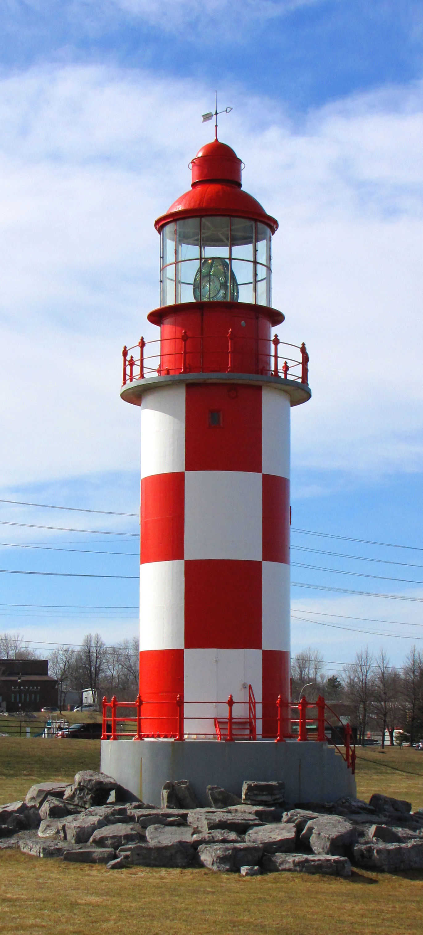 Canada Science and Technology Museum, lighthouse on grounds, original site was Cape North, Nova Scotia, 1908